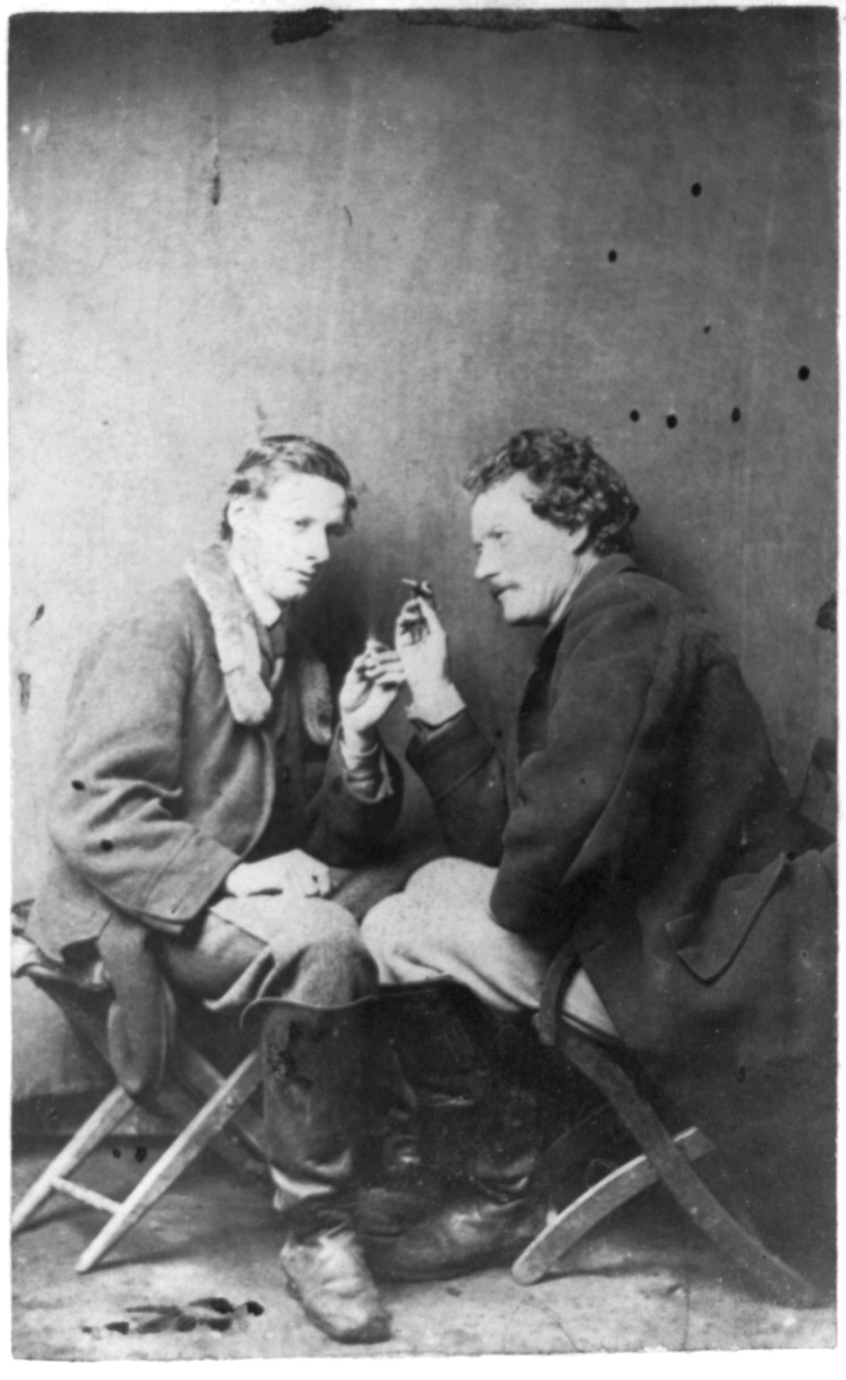 Title: James Walker and Theodore Davis, Civil War artists, full-length portrait, seated on camp stools, facing each other Abstract/medium: 1 photographic print on carte de visite mount : albumen.